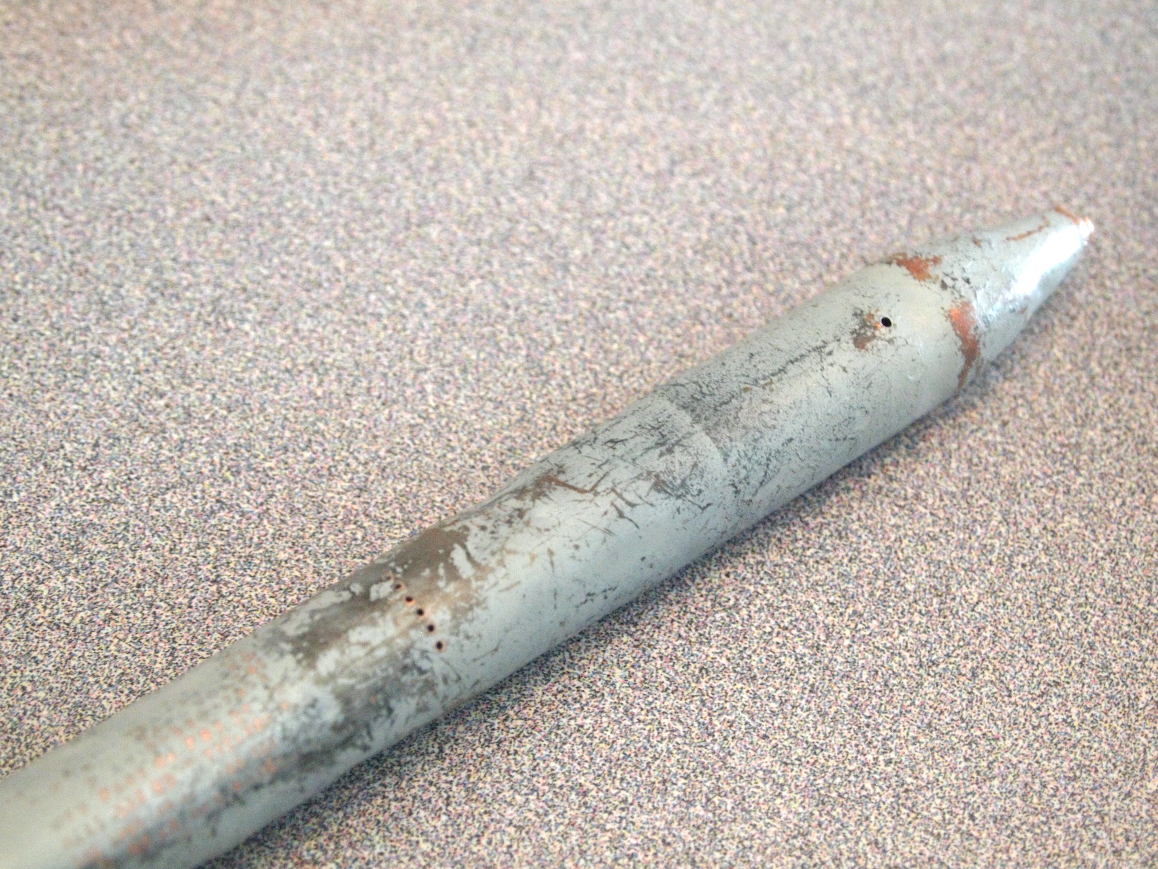 Pitot tube static anemometer. The pointy head faces the wind to measure the dynamic pressure. The small holes on the side of the tube measures the status pressure. Wind speed is calculate from the difference in the pressure.